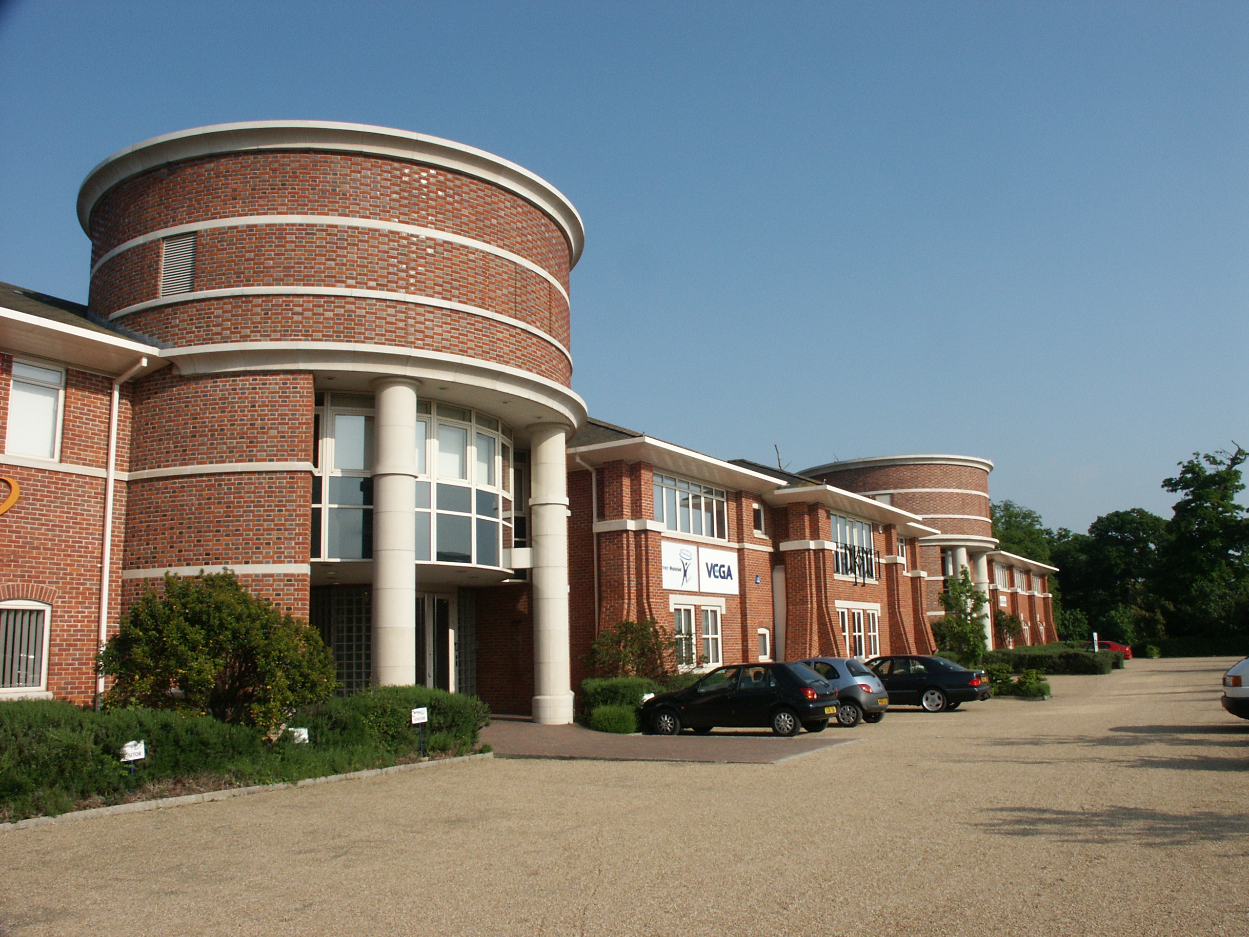 Delme Place, Cams Estate, Fareham